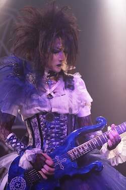 Mana Playing live with white costume, 2011